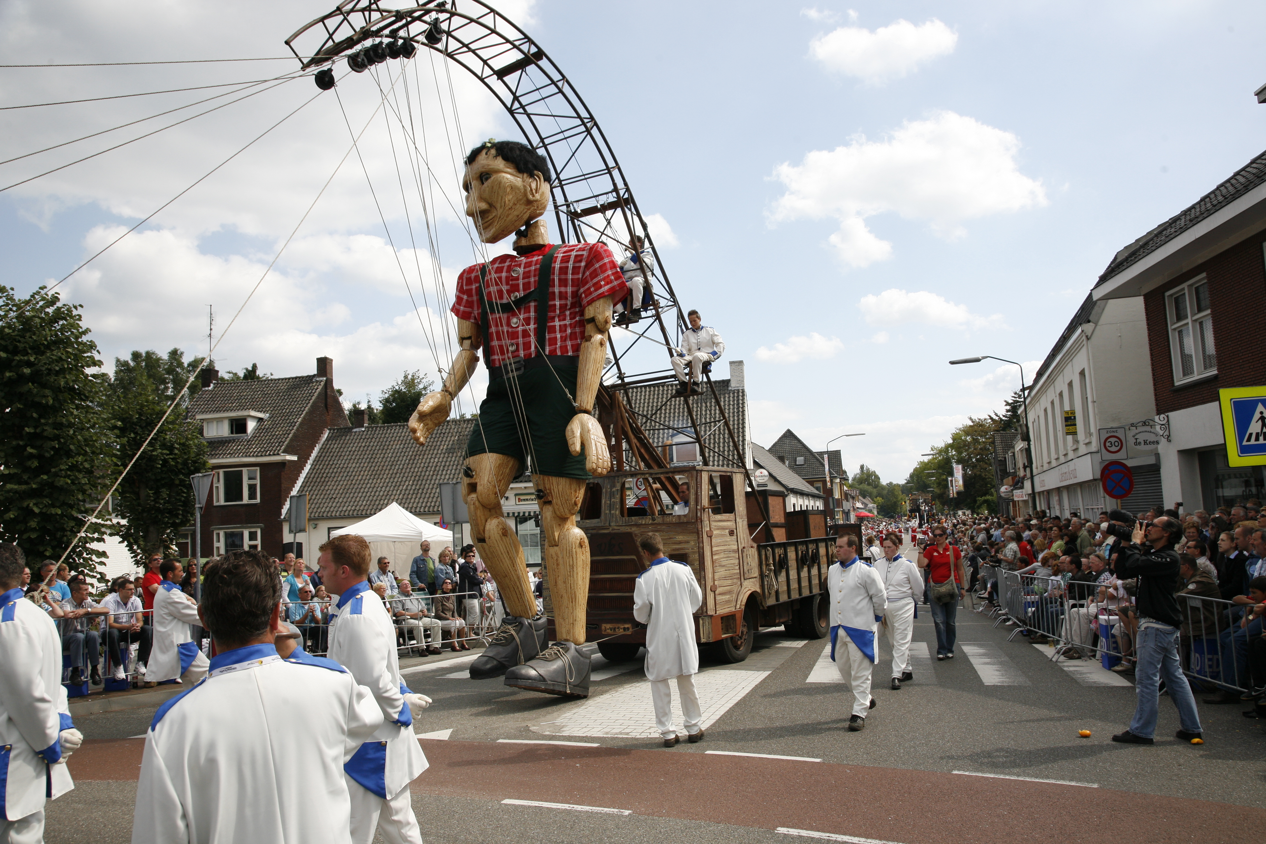 Brabantsedag 2009 - VK Schenkels